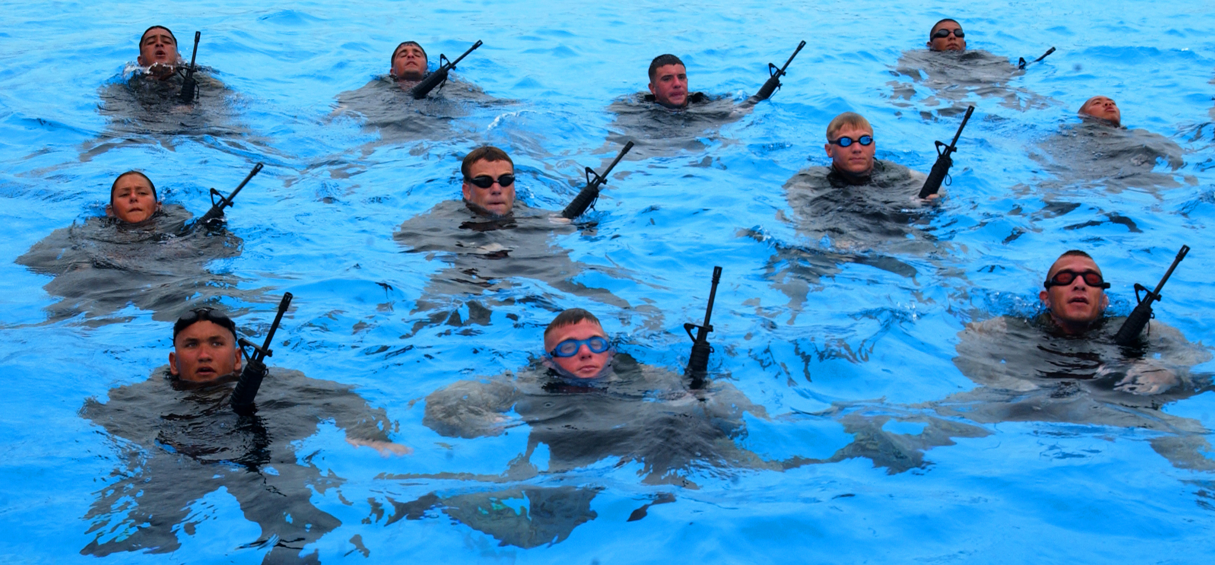 Students of the Marine Combat Instructor Water Survival Course tread water in formation while carrying the rifle at port arms as part of water aerobics at the Camp Schwab Aquatic Center June 14. Water aerobics sessions are part of the conditioning and strengthening portion of the course and consist of swimming different strokes above water and underwater, strength-training activities in the water, and exercises along the edges of the pool.